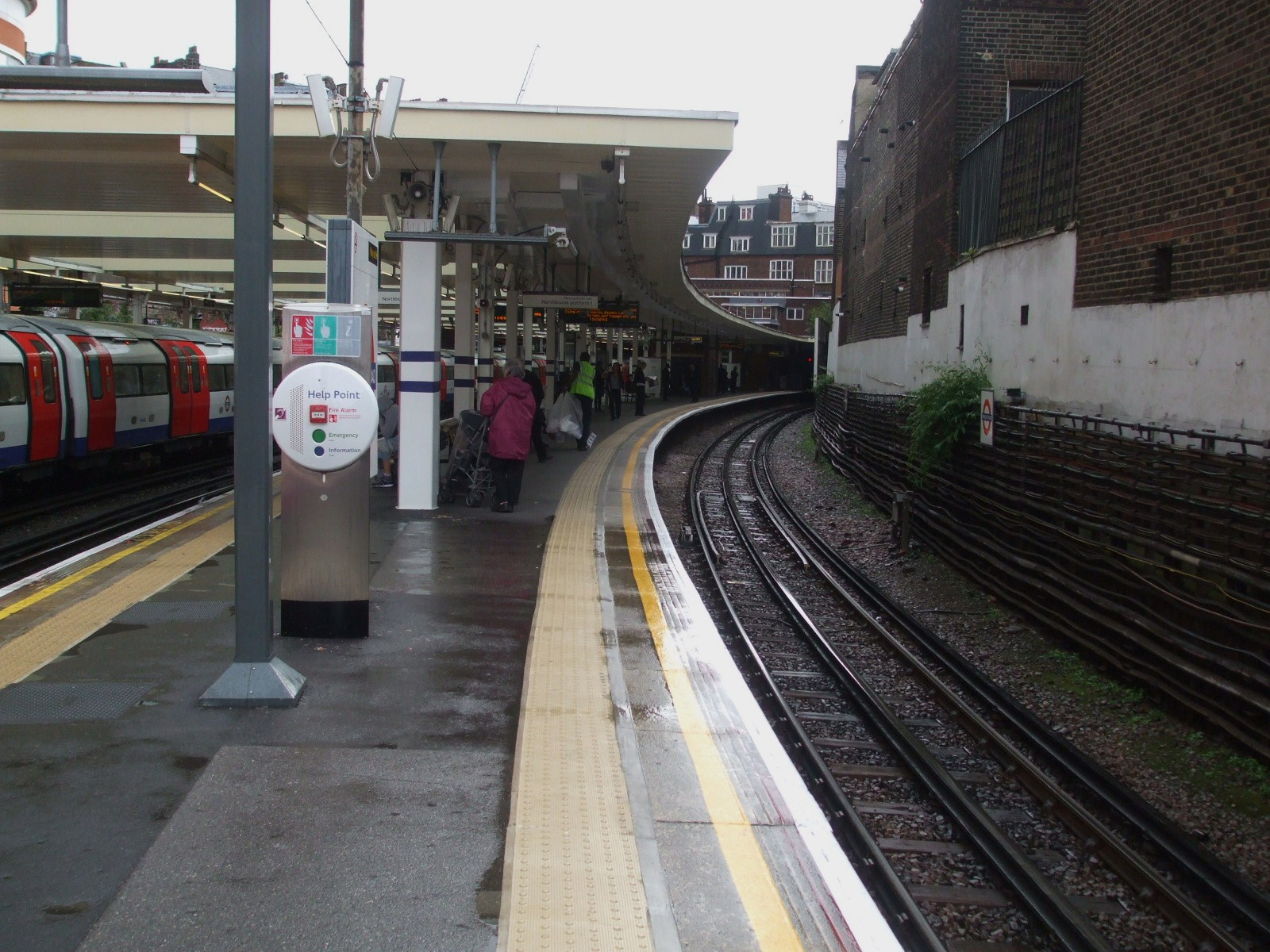 Finchley Road tube station northbound Metropolitan platform looking south